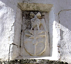 Soleto family